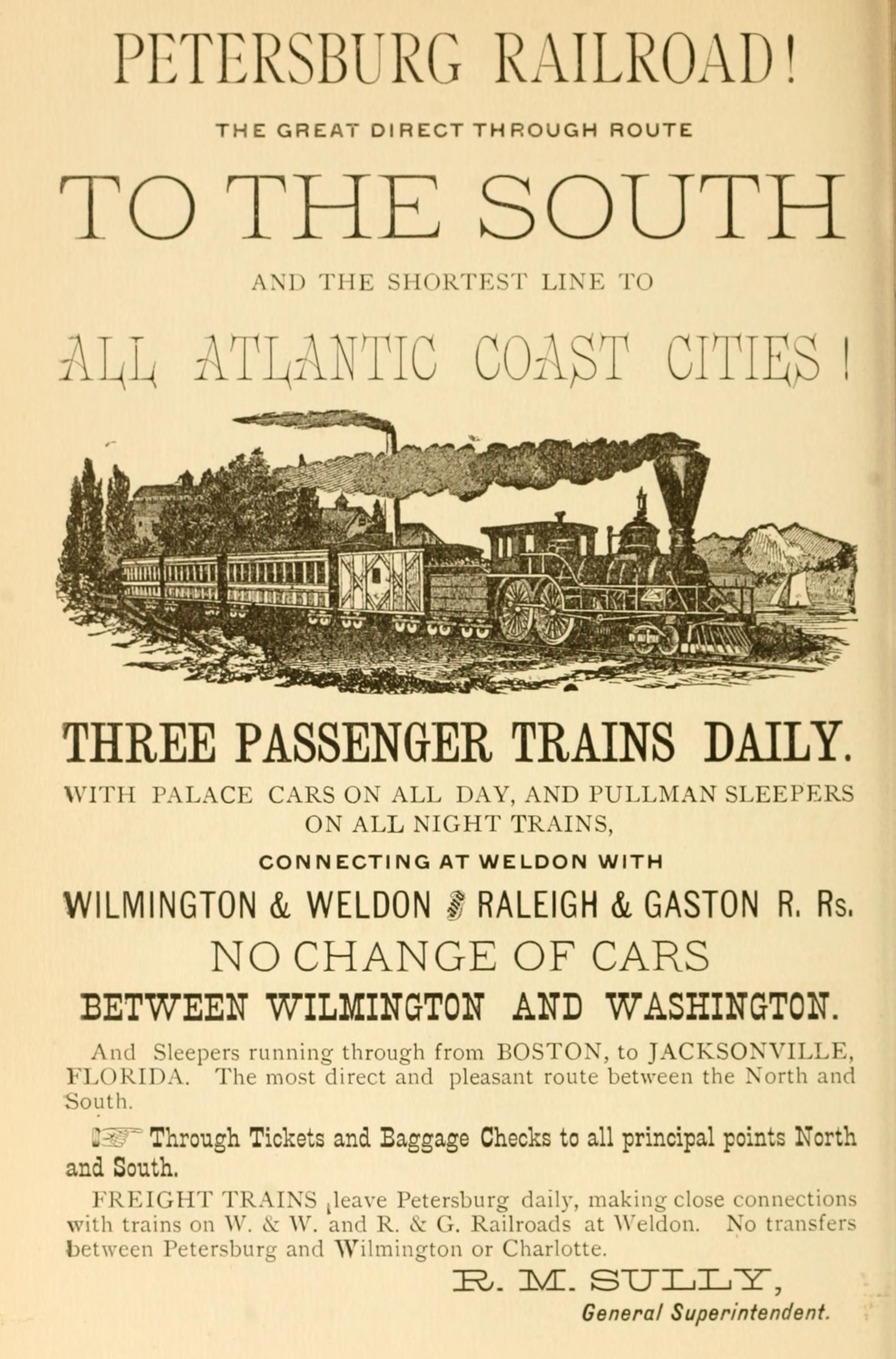 Late 1884 advertisement for the Petersburg Railroad, which was later incorporated into the Atlantic Coast Line. (cropped)